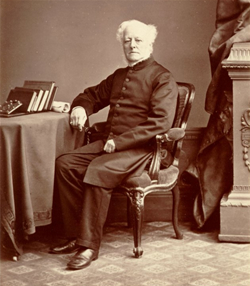 photograph of William Penny Brookes, founder of the Wenlock Olympian Society Annual Games.